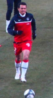 Ceara PSG player